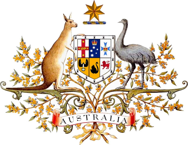 The original drawing of the Australian coat of arms. The Coat of Arms of Australia is the official symbol of Australia. The initial coat of arms was granted by King Edward VII on May 7 1908, and the current version, shown here, was granted by King George V on September 19 1912. This page was sent to the Prime Minister of Australia's department with the following note: His Excellency the Governor General directs the publication, for general information, of the enclosed certified copy of the Royal Warrant granting Armorial Ensigns and Supporters to the Commonwealth of Australia. Andrew Fisher, Prime Minister.